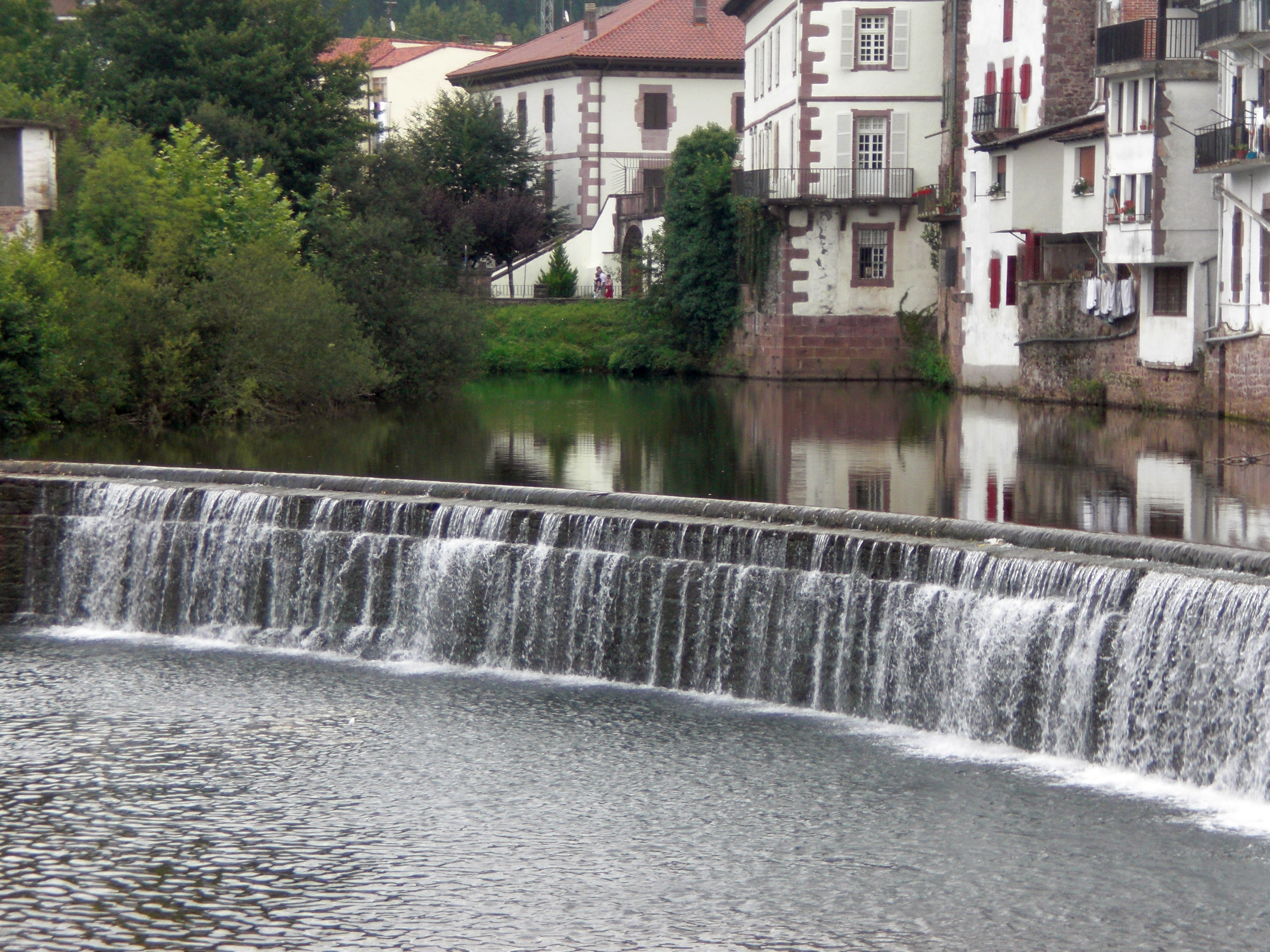 El río y Elizondo.